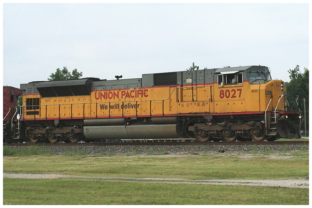 Union Pacific Railroad 8027, EMD SD9043AC